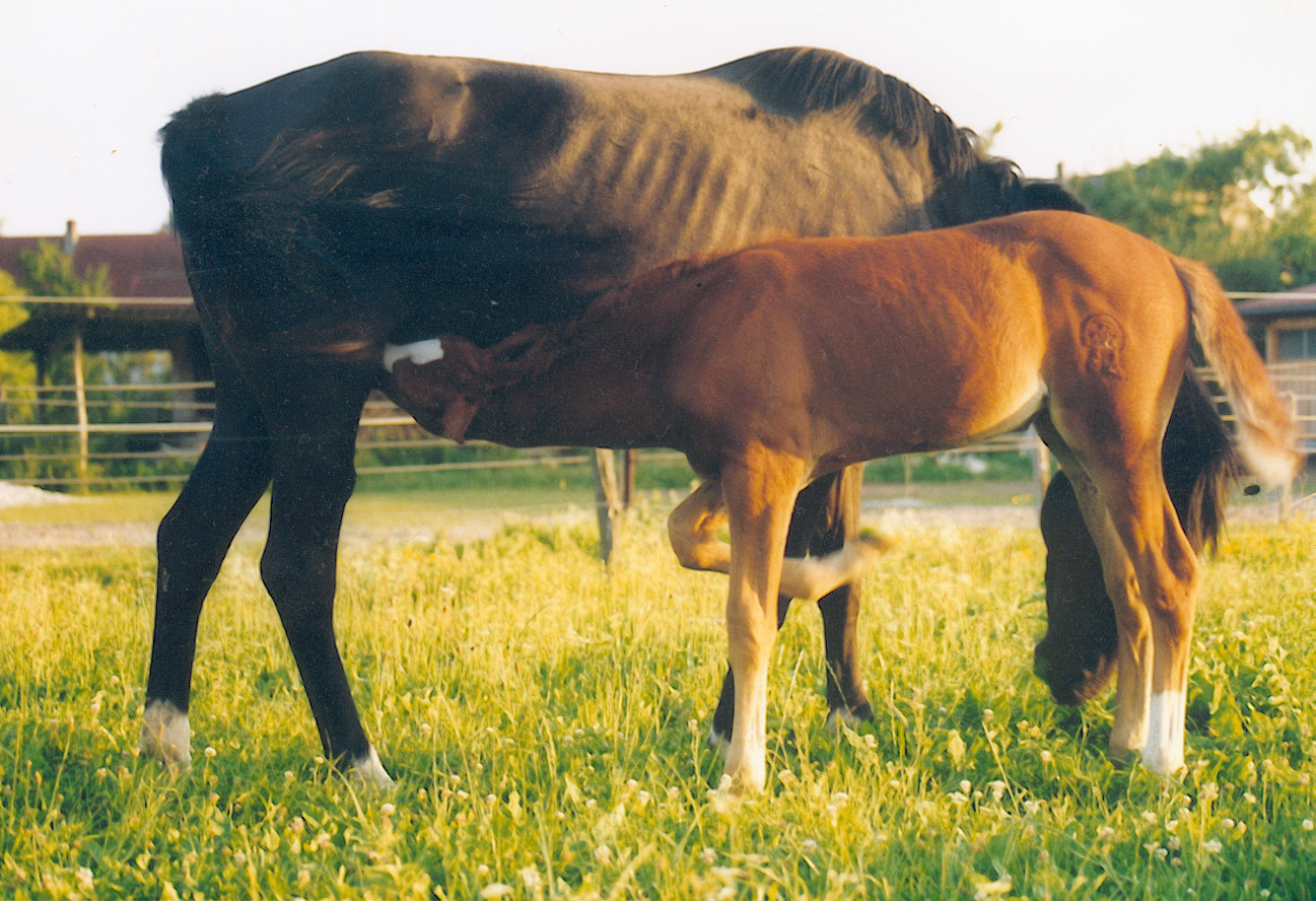 A mare of the breed "Deutsches Reitpony" with a suckling foal